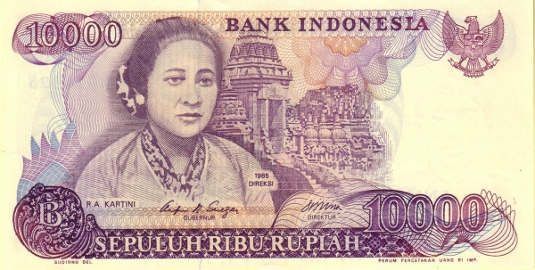 Indonesian currency issued 1985.